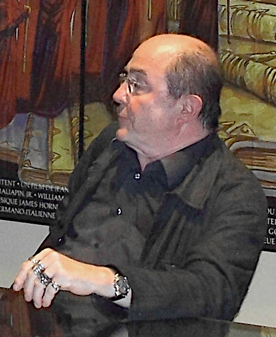 French comic artist Philippe Druillet at Babel International Comics Festival, Athens, 15/6/2007